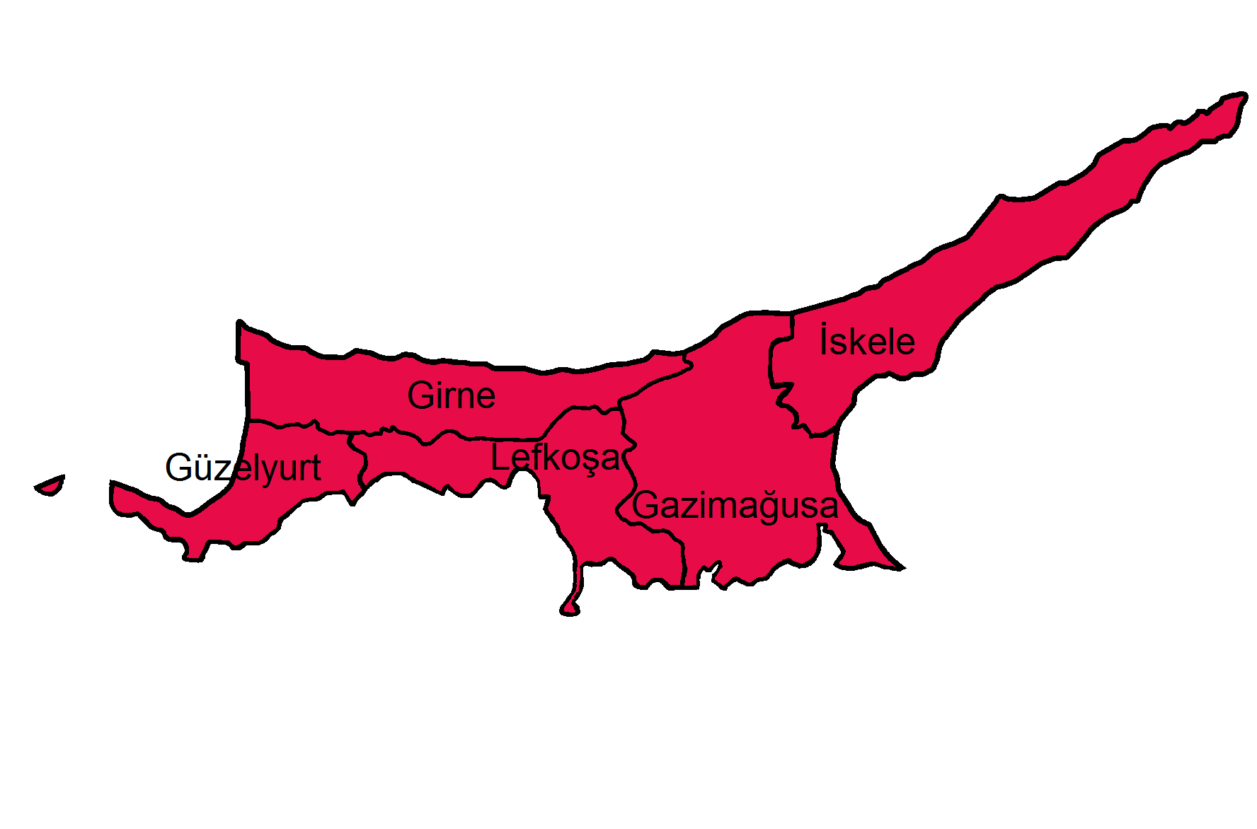 DistrictMapofNorthCyprus